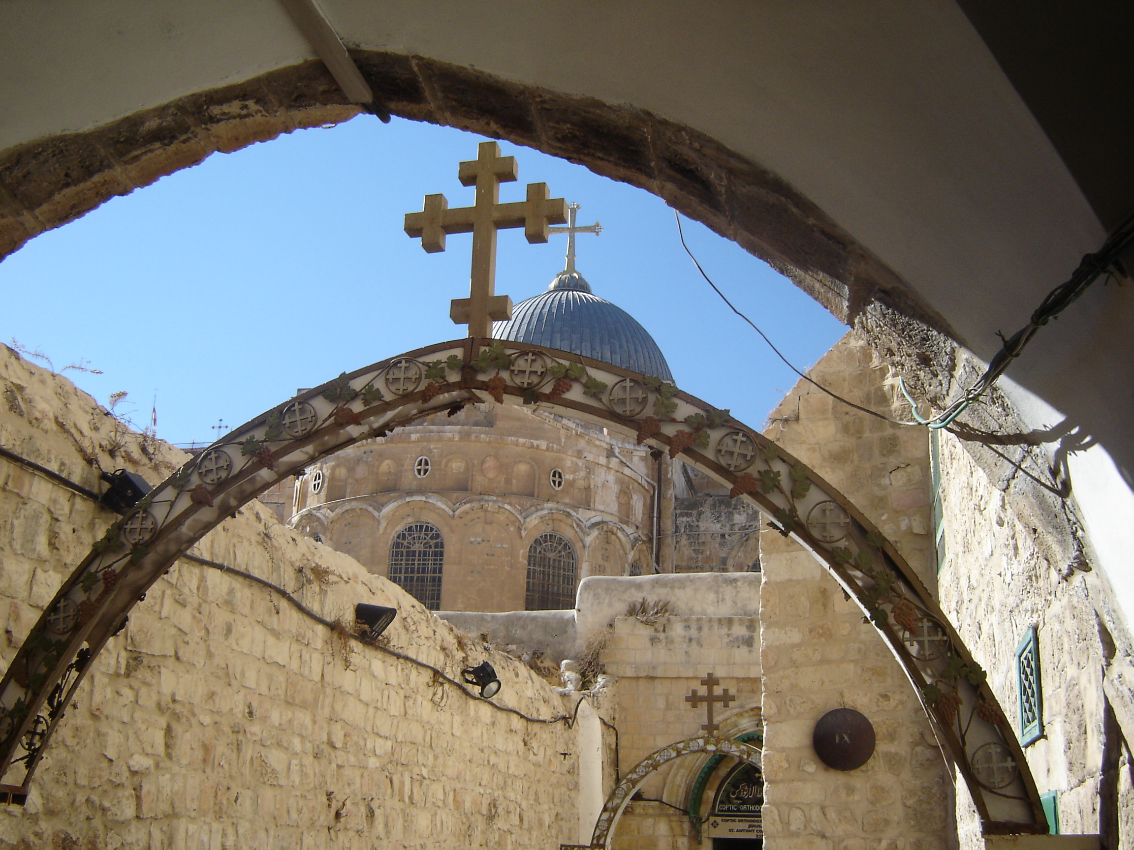 3 crosses in the Christian quarter, Jerusalem